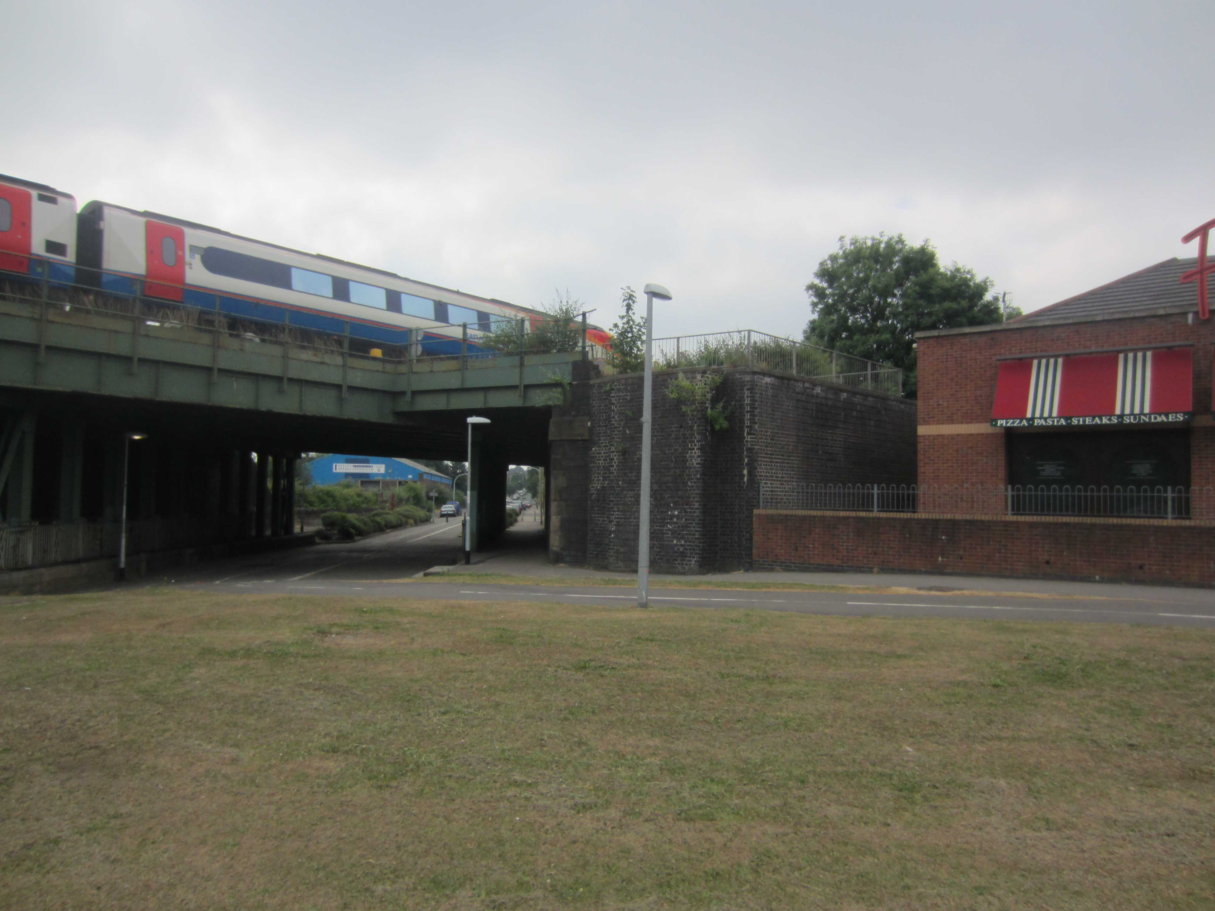 On 20 July 2013 I took this photo of the sole surviving remnant of the former LD&ECR west of the Midland Main Line in Chesterfield. The feature is the blue brick upright behind the lamppost in centre shot. This was the base of the right-hand upright of the arch shown on the main image accompanying the Horns Bridge article, which was taken from the south loking north, whilst this shot is taken looking southeast along the original Hasland Road. The train passing overhead is a northbound service slowing for its stop at Chesterfield (Midland) station.